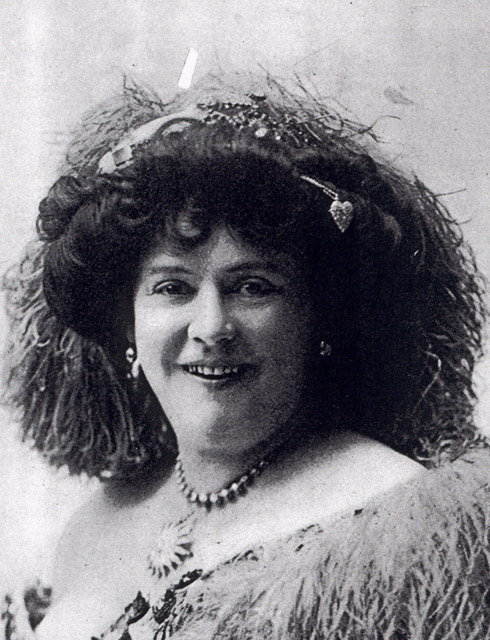 Theatrical portrait of Rose Sydell the "burlesque queen" featured on the Oct. 22, 1910 cover page of the New York Clipper. She was known as the star of Rose Sydell and the London Belles, which toured the United States and Europe for twenty years around the turn of the 20th century.